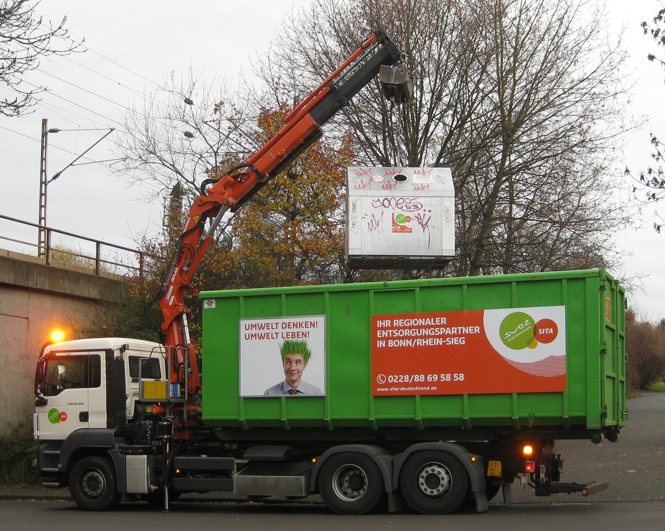 Germany, Bonn: emptying of a container for collecting waste glass; truck model: MAN TGS 26.440